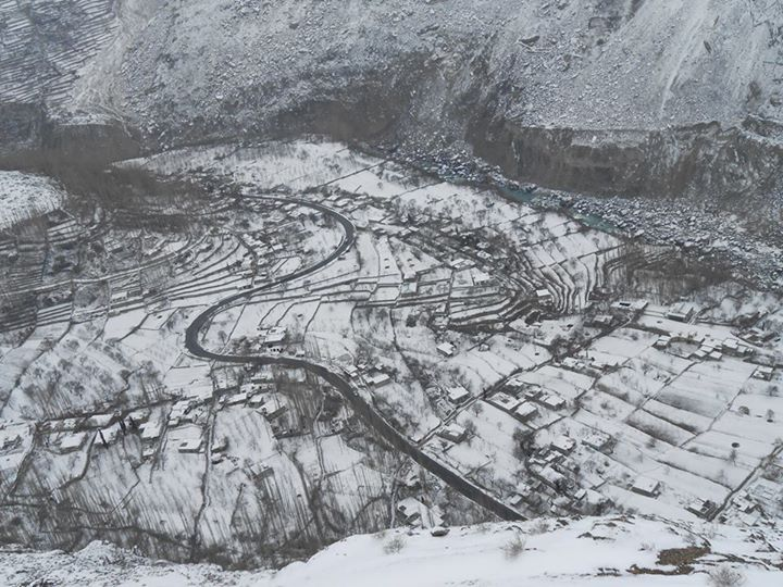 Picture Taken from Gawokin, a Place above the Village, Some 1000 feet above..